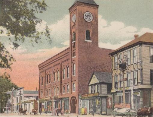 Opera House, Norway, Maine. Designed by architect E. E. Lewis of Gardiner, Maine, it was built in 1894.